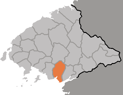 Map of Jongju, Pyongan-pukto, DPRK, 2006